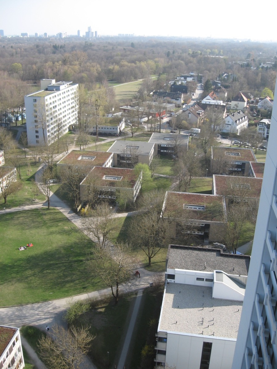 Studentenstadt Freimann in Munich